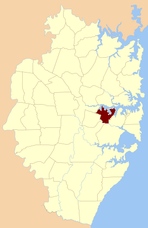 original location of the parish within Cumberland County, New South Wales (Sydney area)